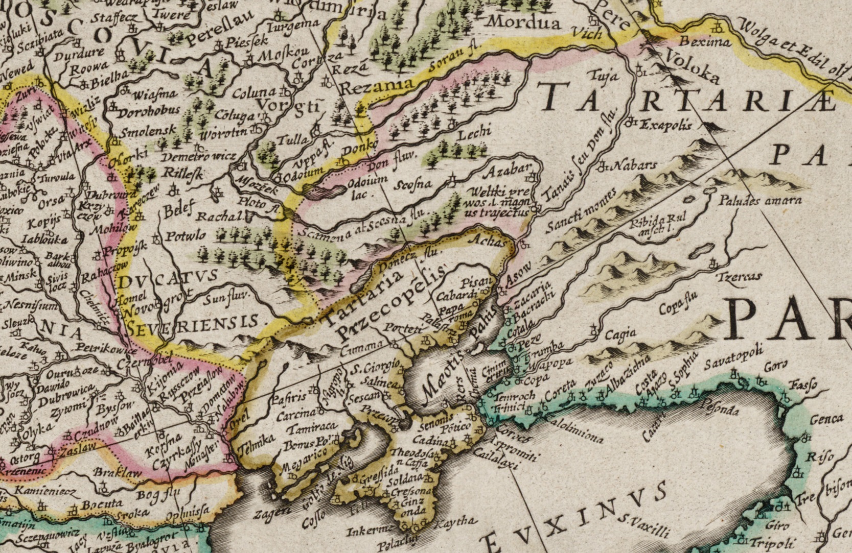 Map of Crimea. A fragment of the Europa map created by W Blaeu in 1644